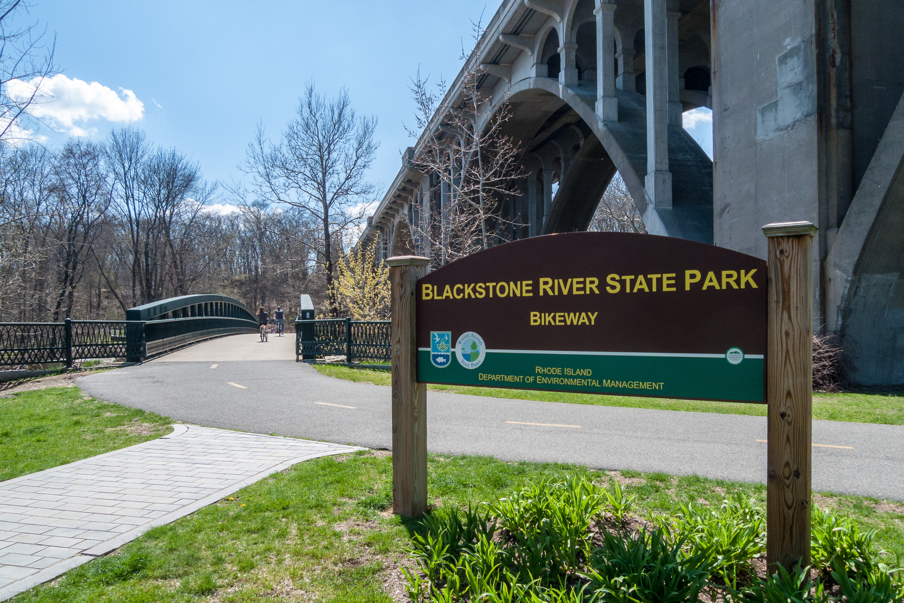 Blackstone River State Park, Lincoln Rhode Island